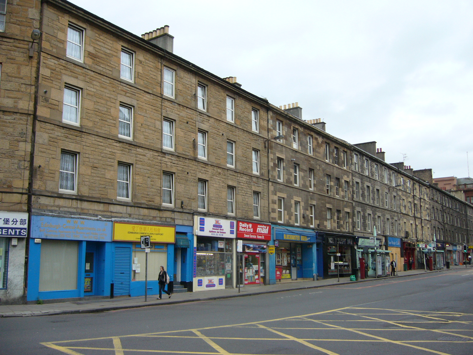 A row of seven plain, four-storey Georgian tenements, designed by James Gillespie Graham, the same architect responsible for the grandeur of the western expansion of the New Town on the Moray Estate.